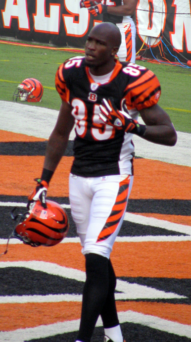 Photograph of Chad Ocho Cinco during warm-ups before the opening game versus the Ravens on 9/10/07. Taken by myself from the stands.